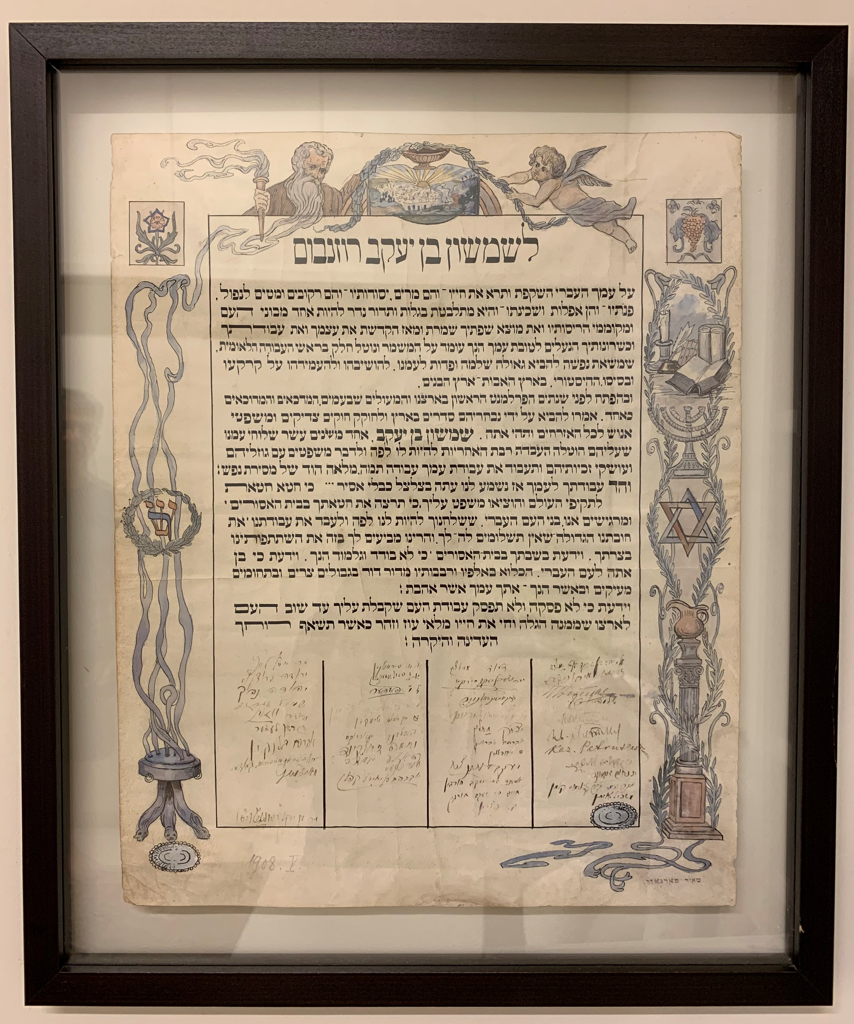 Certificate of Appreciation[clarification needed] on parchment to Shimshon Rosenbaum